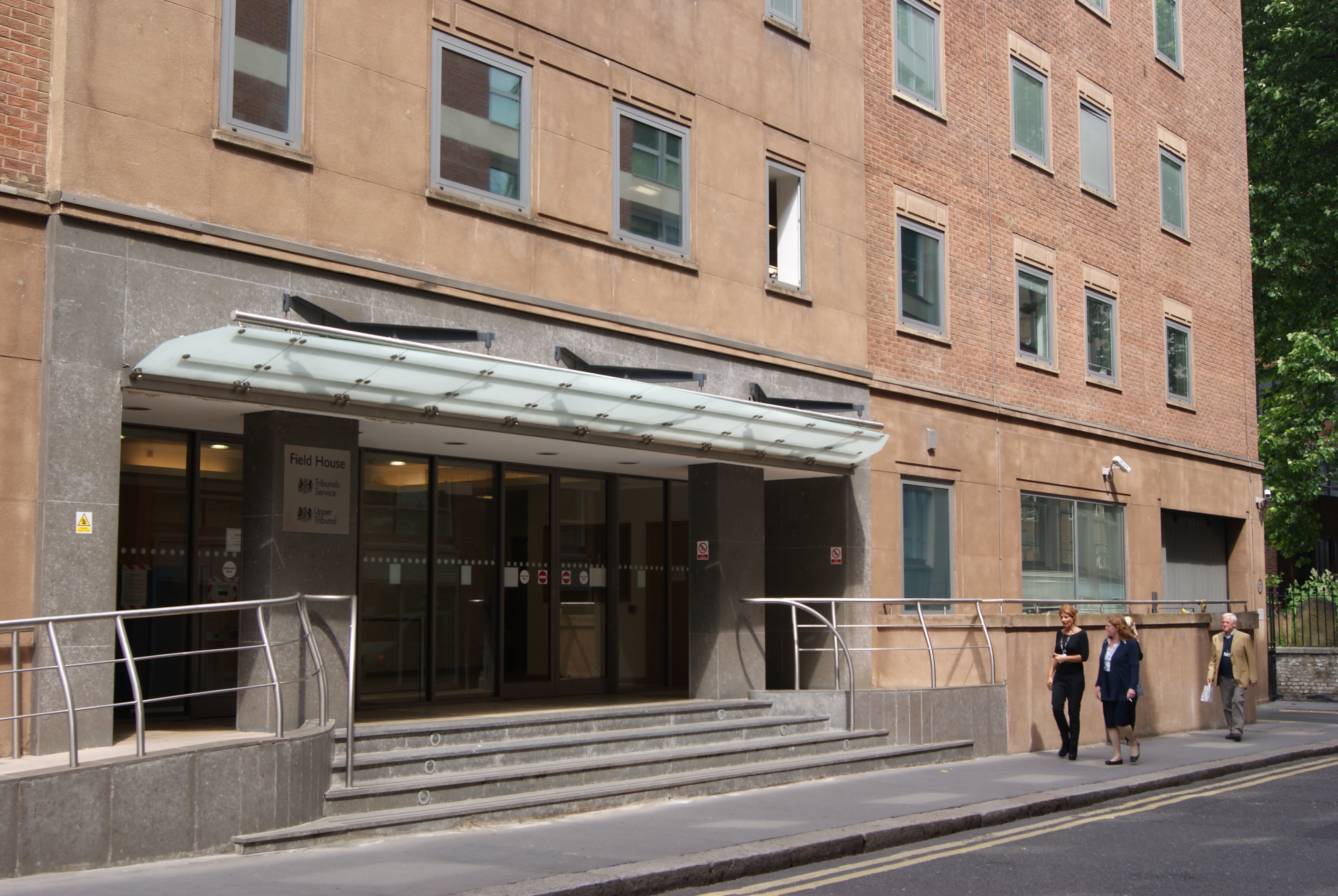 Field House at 15 Bream's Buildings, London EC4A 1DZ, UK, where Her Majesty's Courts and Tribunals Service and the Upper Tribunal are based.